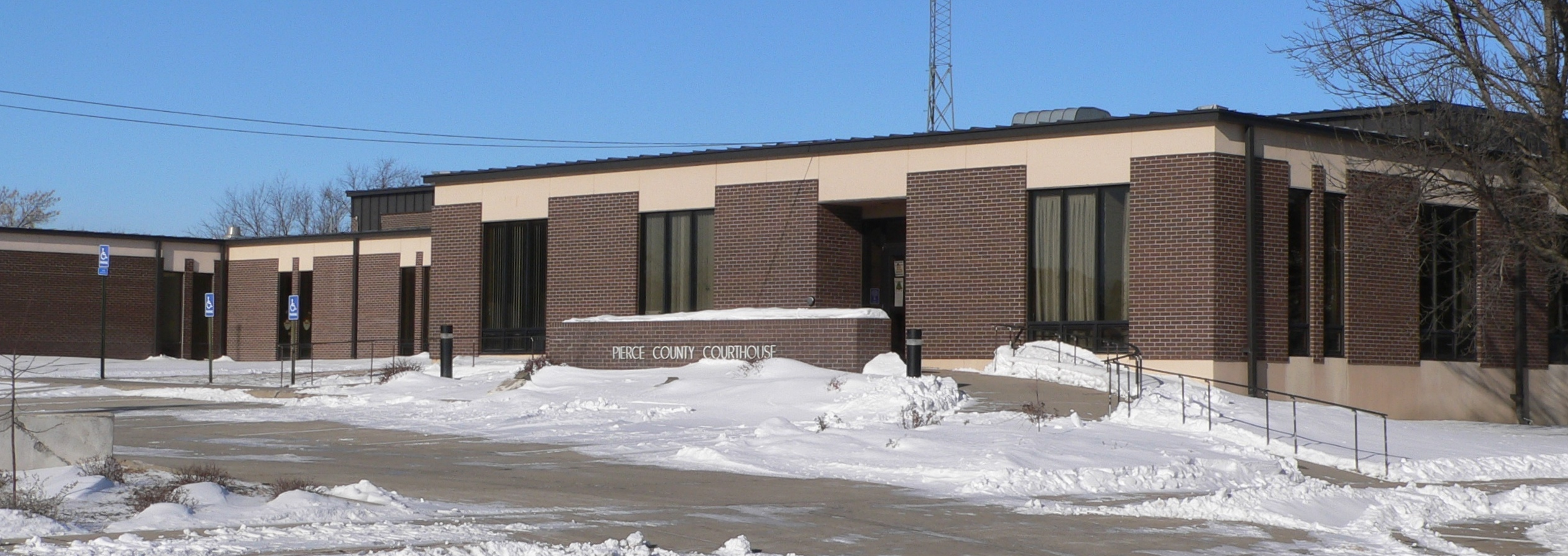 Pierce County Courthouse in Pierce, Nebraska; seen from the southeast. The courthouse was built in 1978.